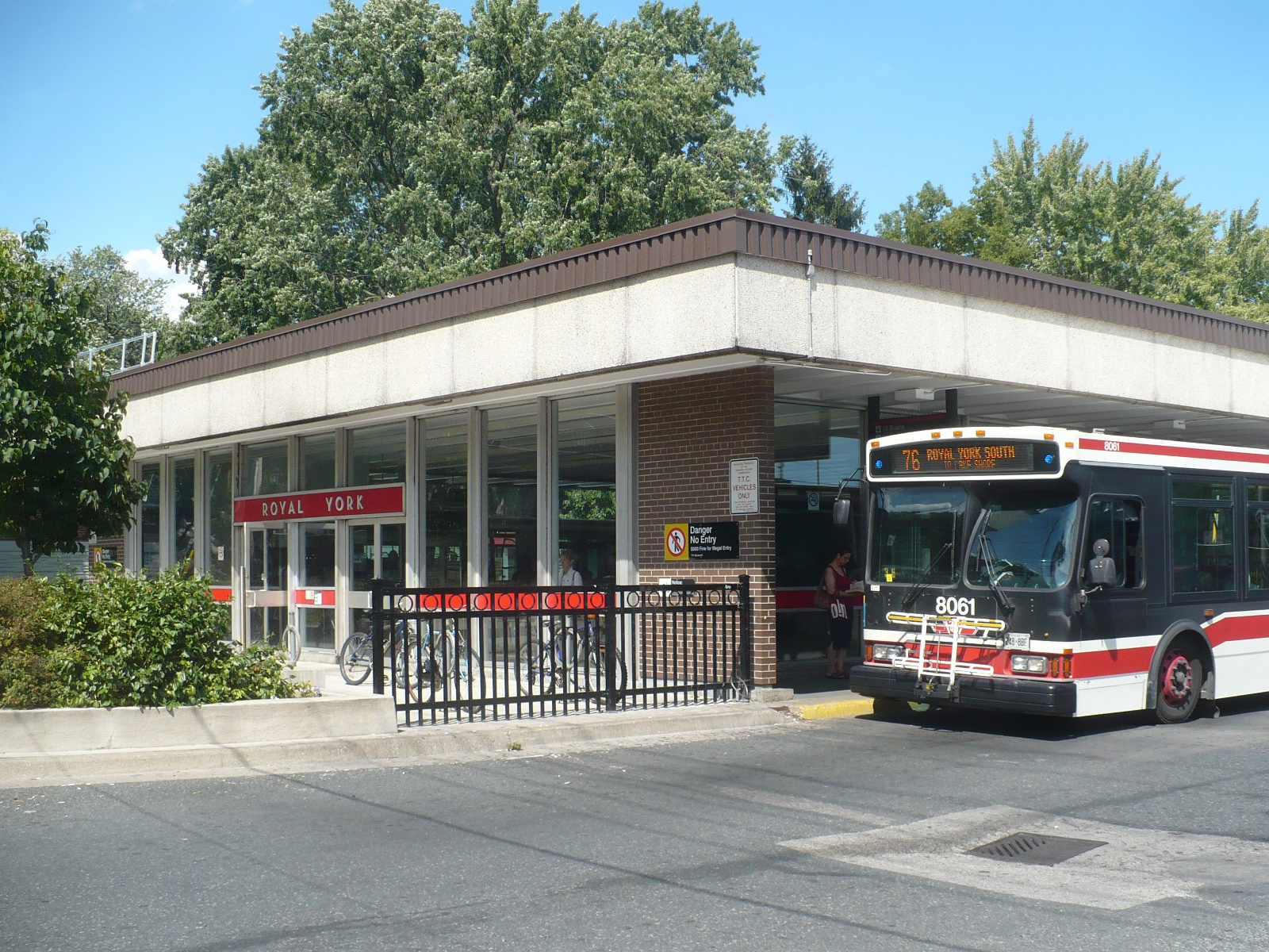 Royal York subway station in Toronto. Main entrance and bus platform